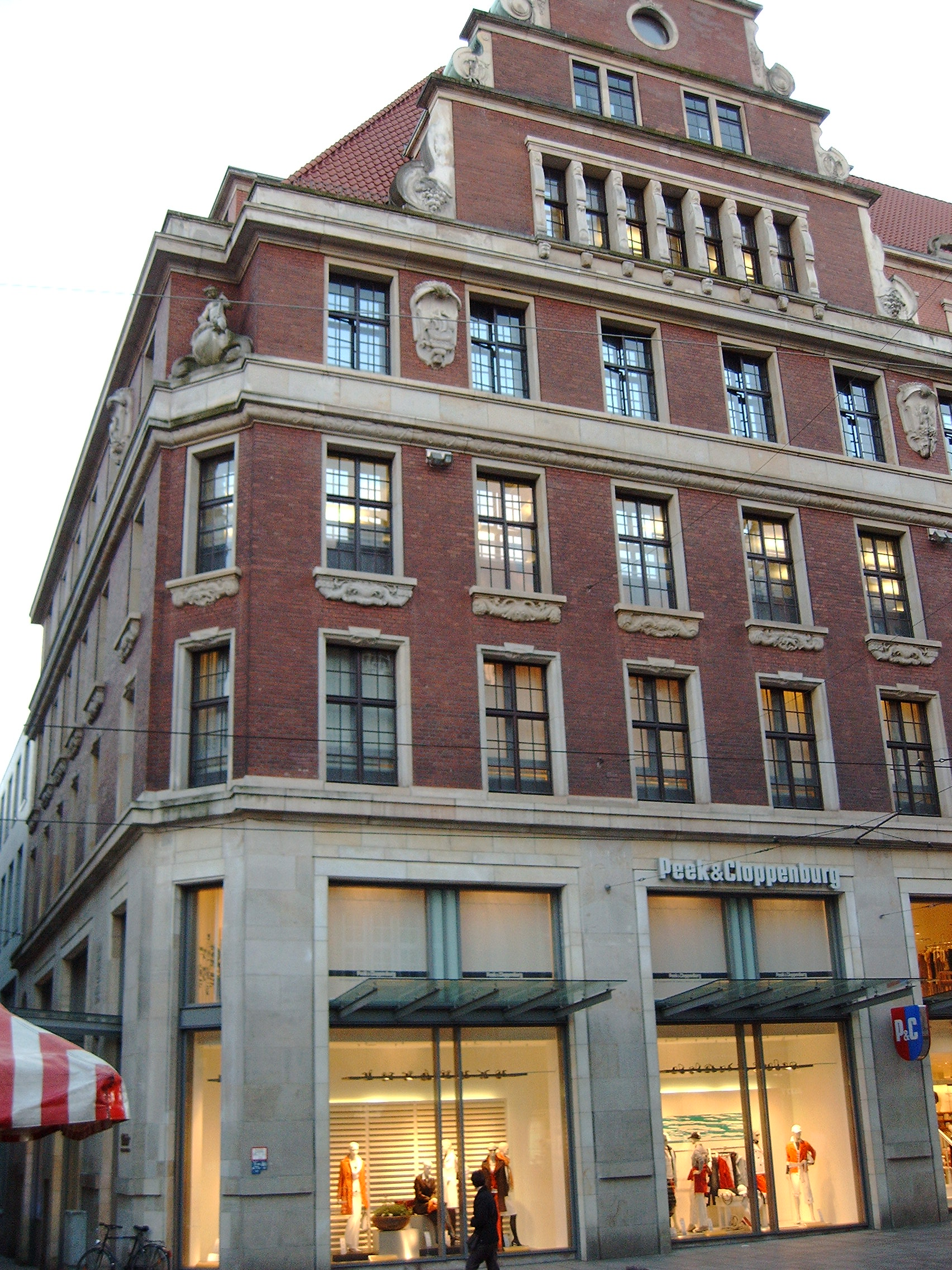 Images DownTown - Bremen City in Germany.